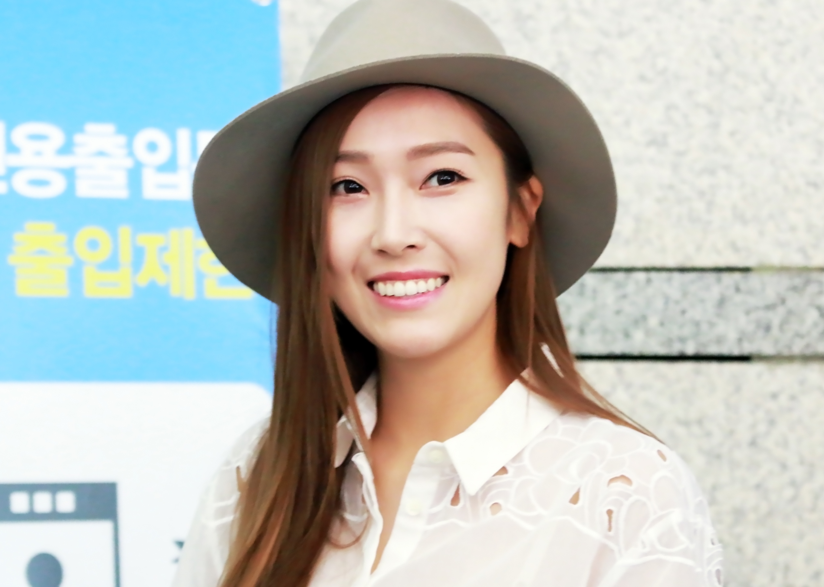 Jessica Jung at Incheon International Airport on April 23, 2015.